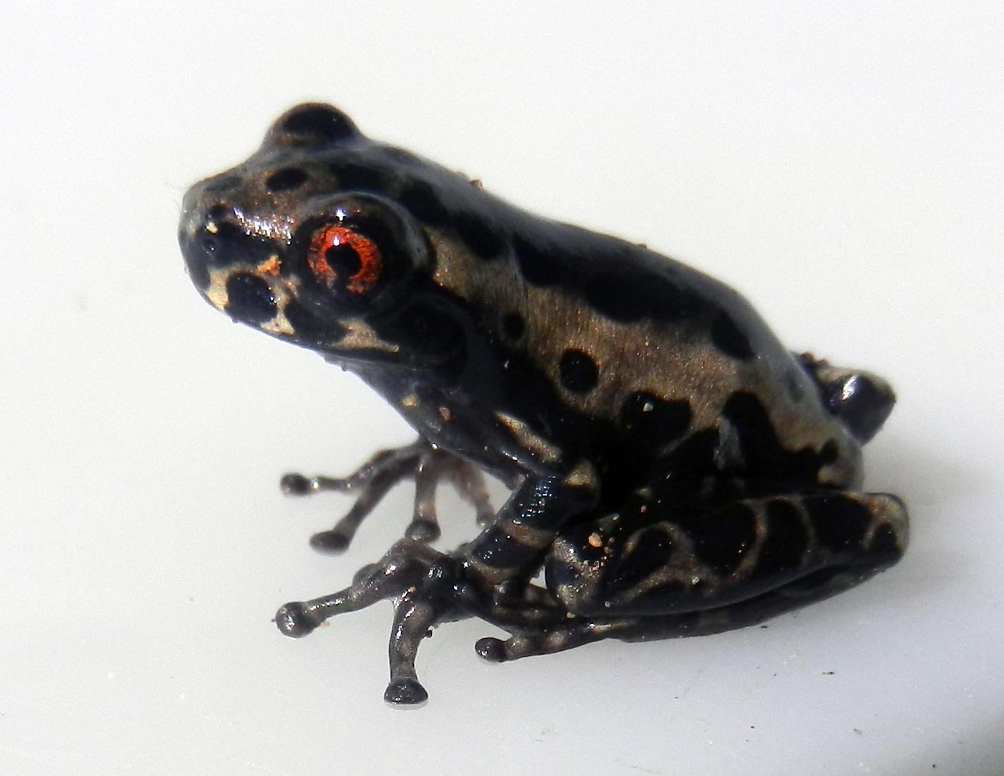 Recently metamorphosed Osteocephalus mimeticus. Manu Learning Centre, Madre de Dios, Peru.